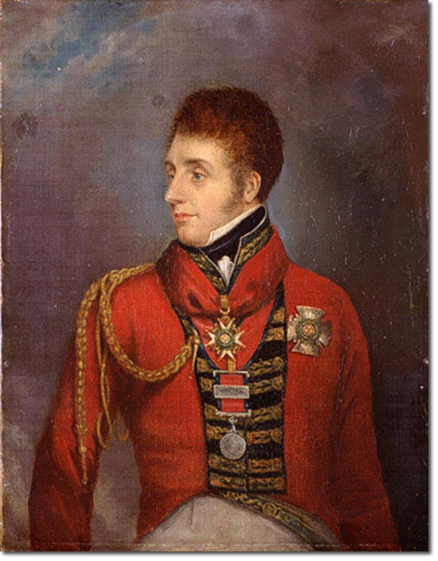 Major General the Hon. Sir William Ponsonby, K.C.B. M.P., Lt. Coll. of the Fifth Dragoon Guards printed by B. McQueen, August 26th, 1817